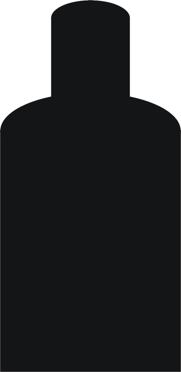 NATO E-type Silhouette Target. total height 101.6 cm (40.0 in) total width 49.5 cm (19.5 in) head height 25.4 cm (10.0 in) head width 21.6 cm (8.5 in)